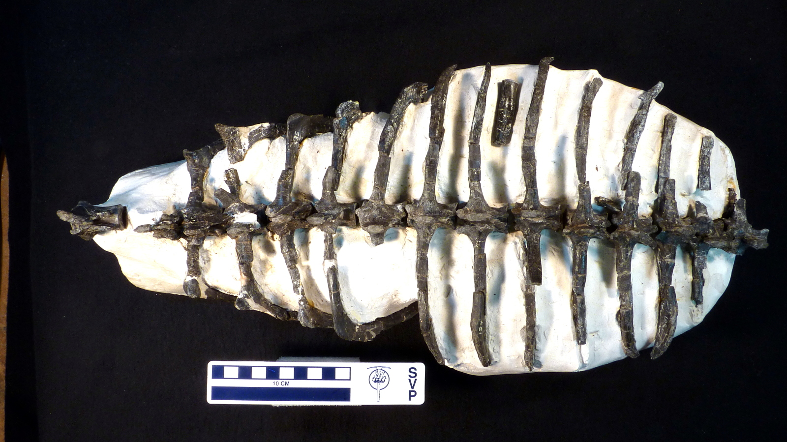 A series of cervical and dorsal vertebrae (and their respective ribs) belonging to USNM 244214, the holotype of Doswellia kaltenbachi. Pictured in dorsal view, anterior to the left.